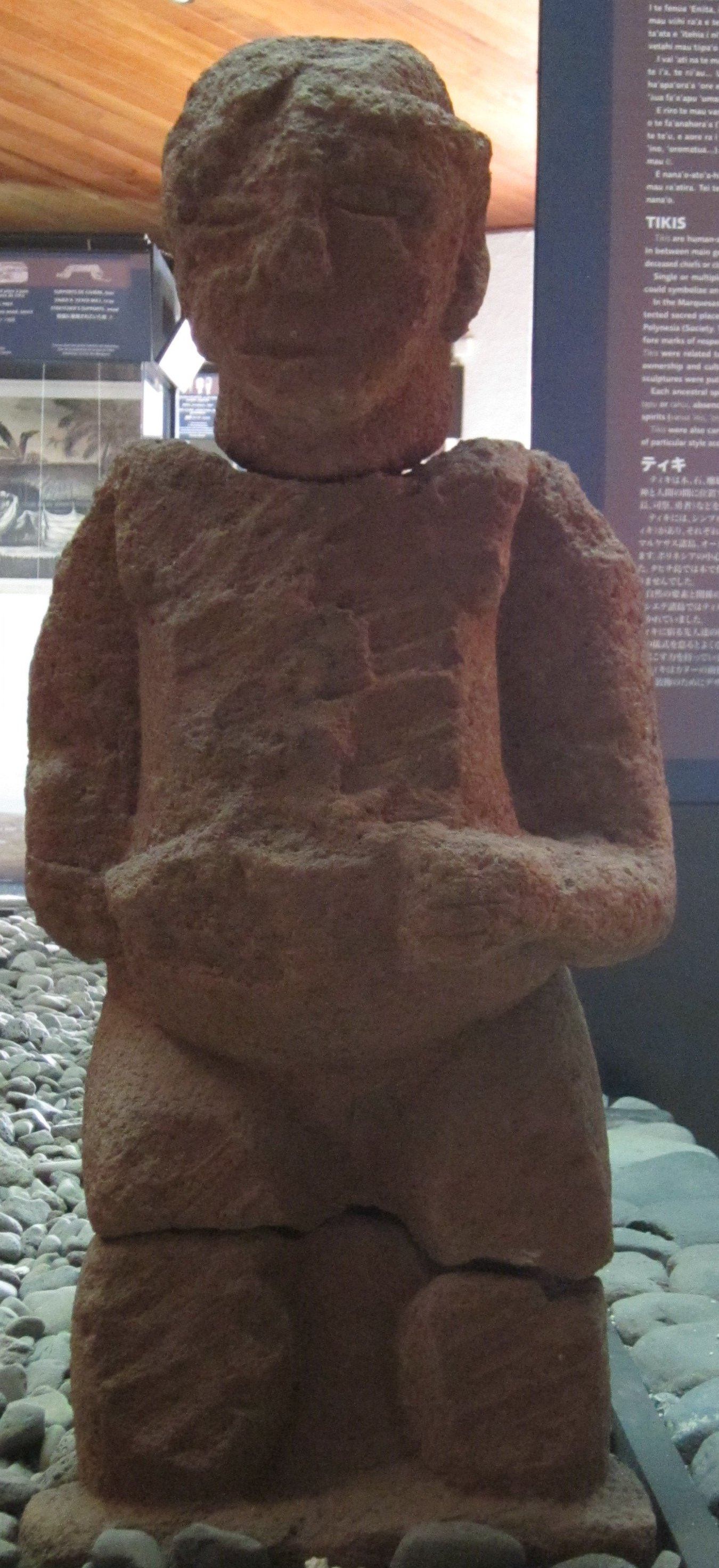 Human image, tuff, from Raivavae, Austral Islands in French Polynesia, Musée de Tahiti et des Îles